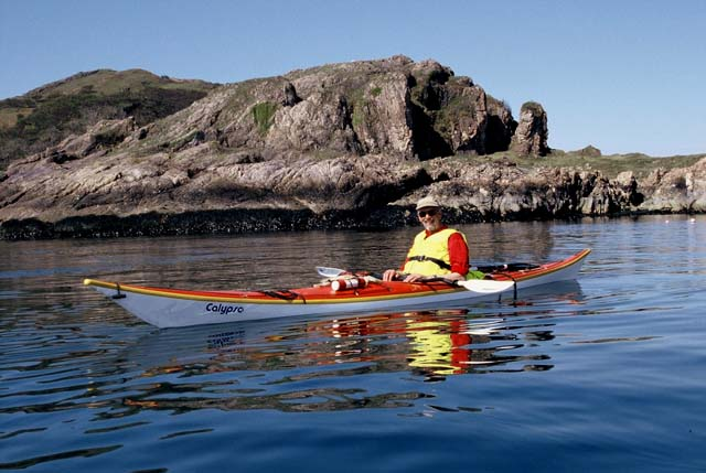 Dùn Chonnuill Sea kayaking around the Garvellach's.